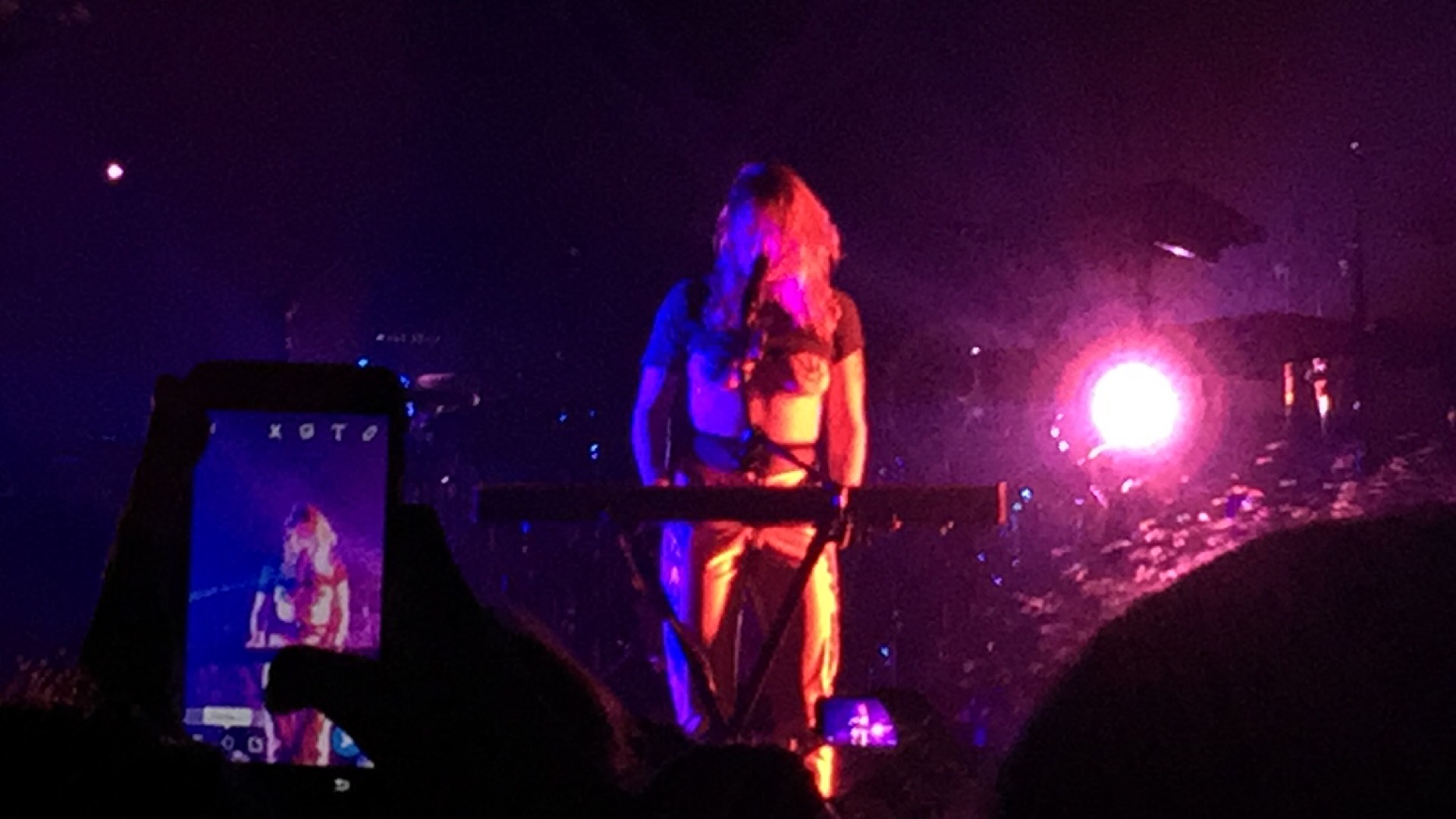 Tove Lo at the Electric Factory in Philadelphia, PA, February 2017